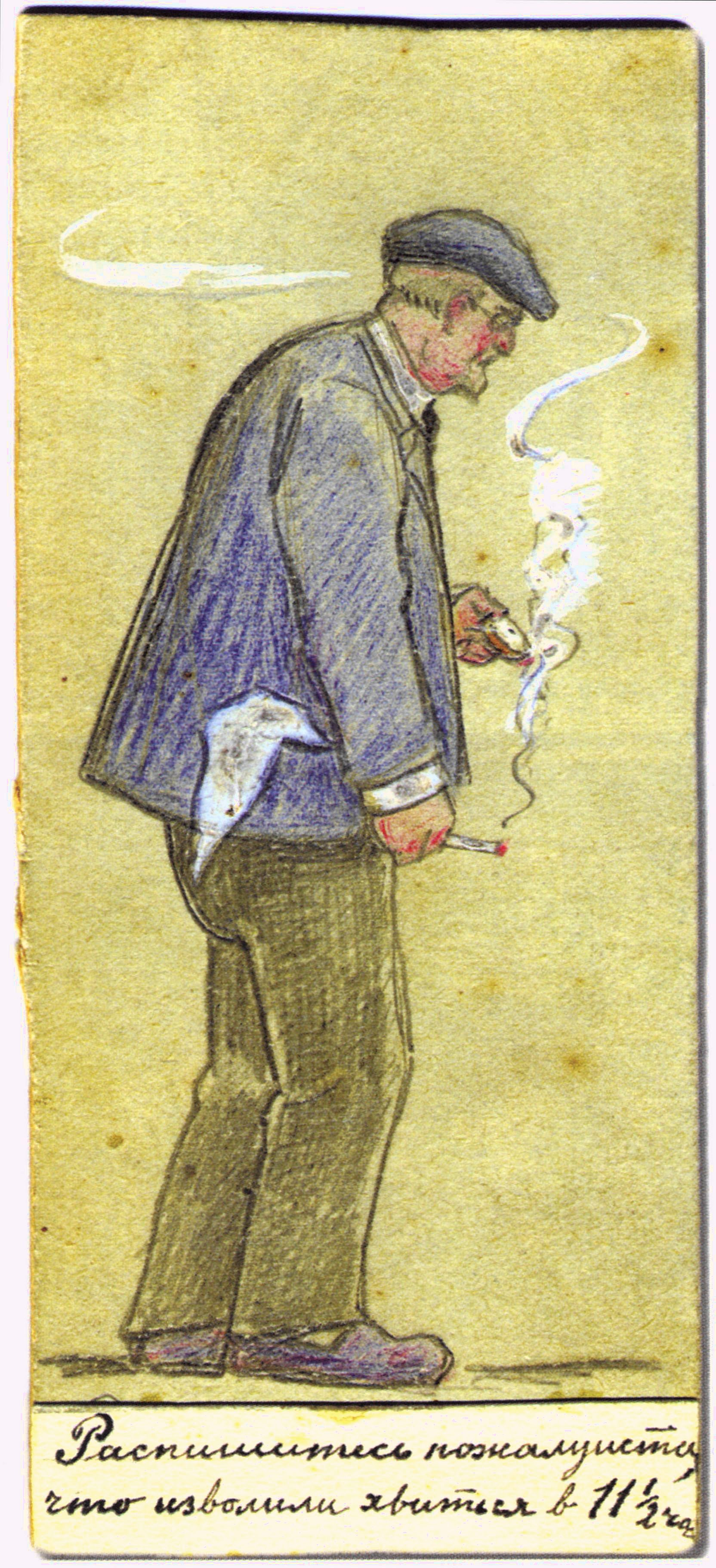 The drawing forms a pair with The Cartoon Portrait of Antonina Shchekotova.